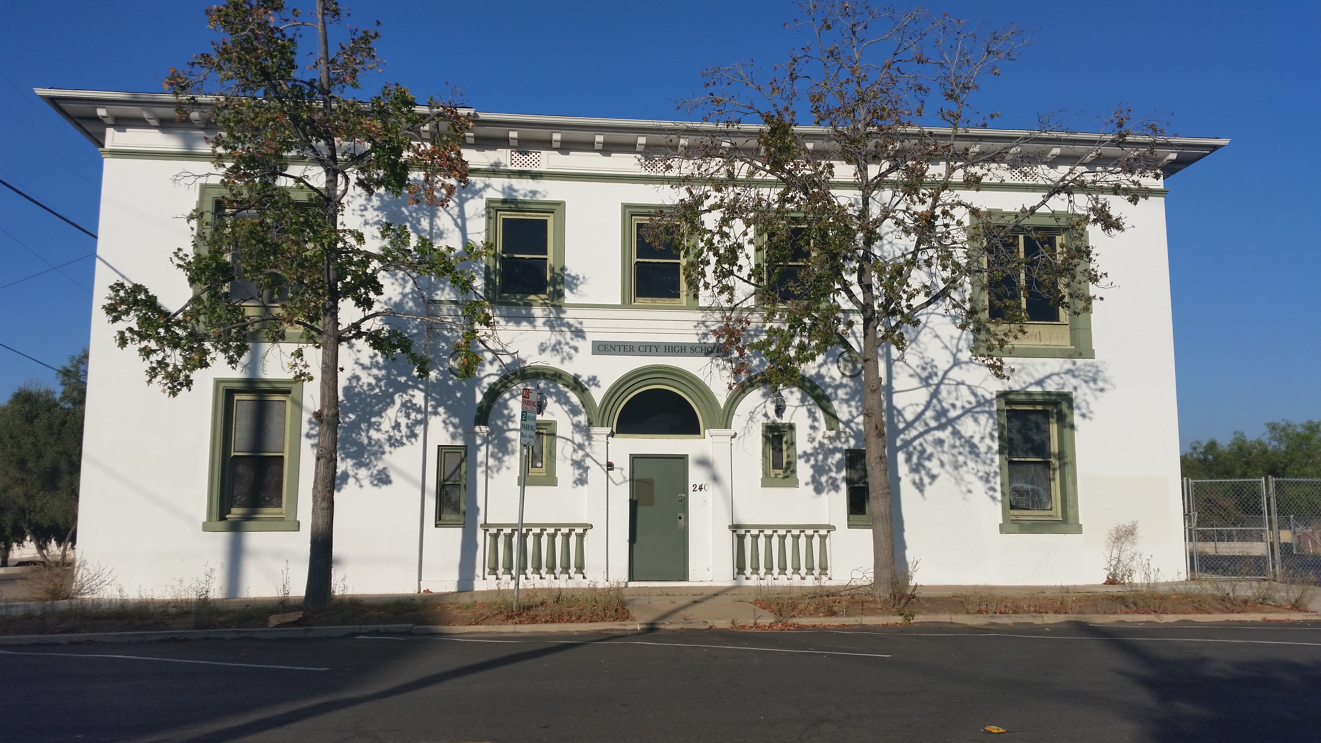 Southwest exterior of Center City High School